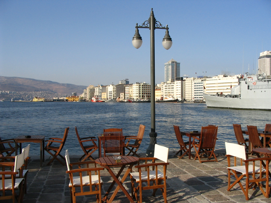 Pasaport view from Konak Pier